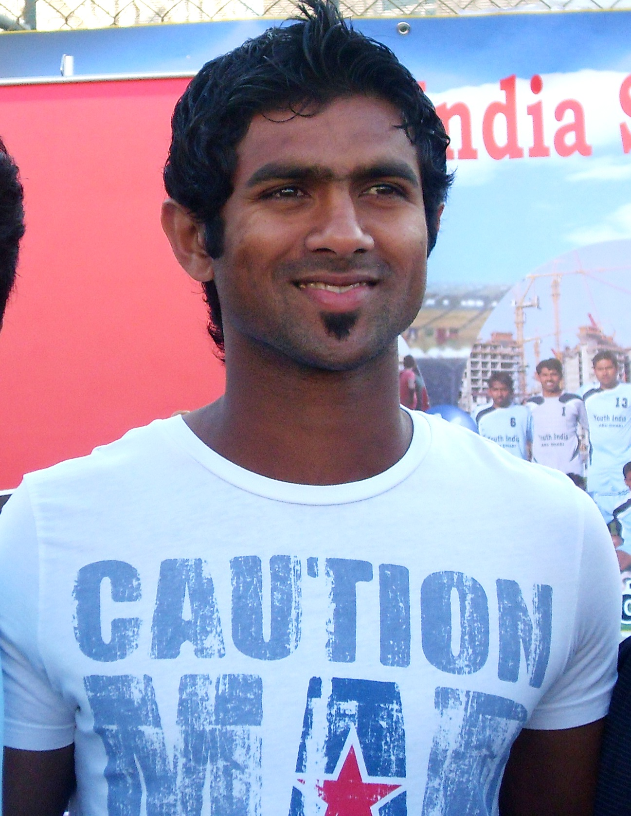 Indian football player Mohammed Rafi